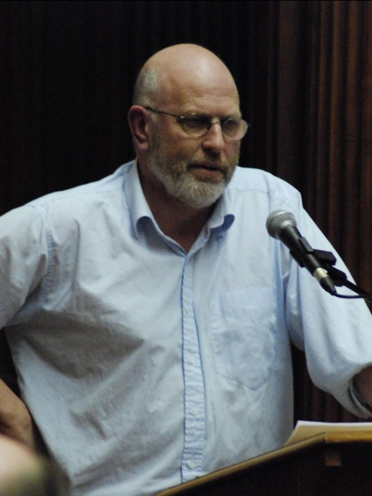 Vernon Small at the "Journalism Matters" EPMU Summit Meeting, NZ Parliament Buildings, Wellington, 11 August 2007.